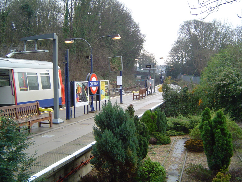 Chesham tube station